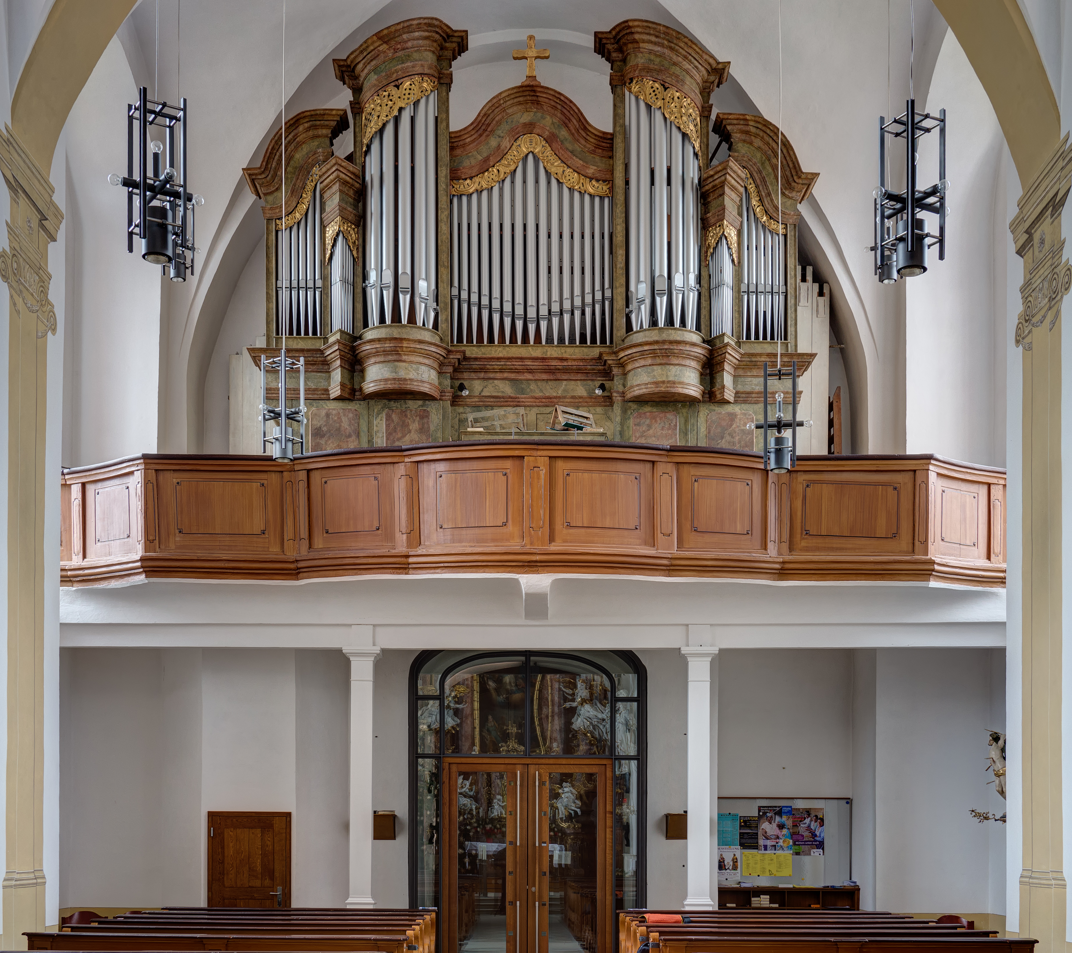 Organ loft in the church in Pettstadt